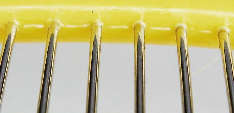 Electric flyswatter, single layer grid